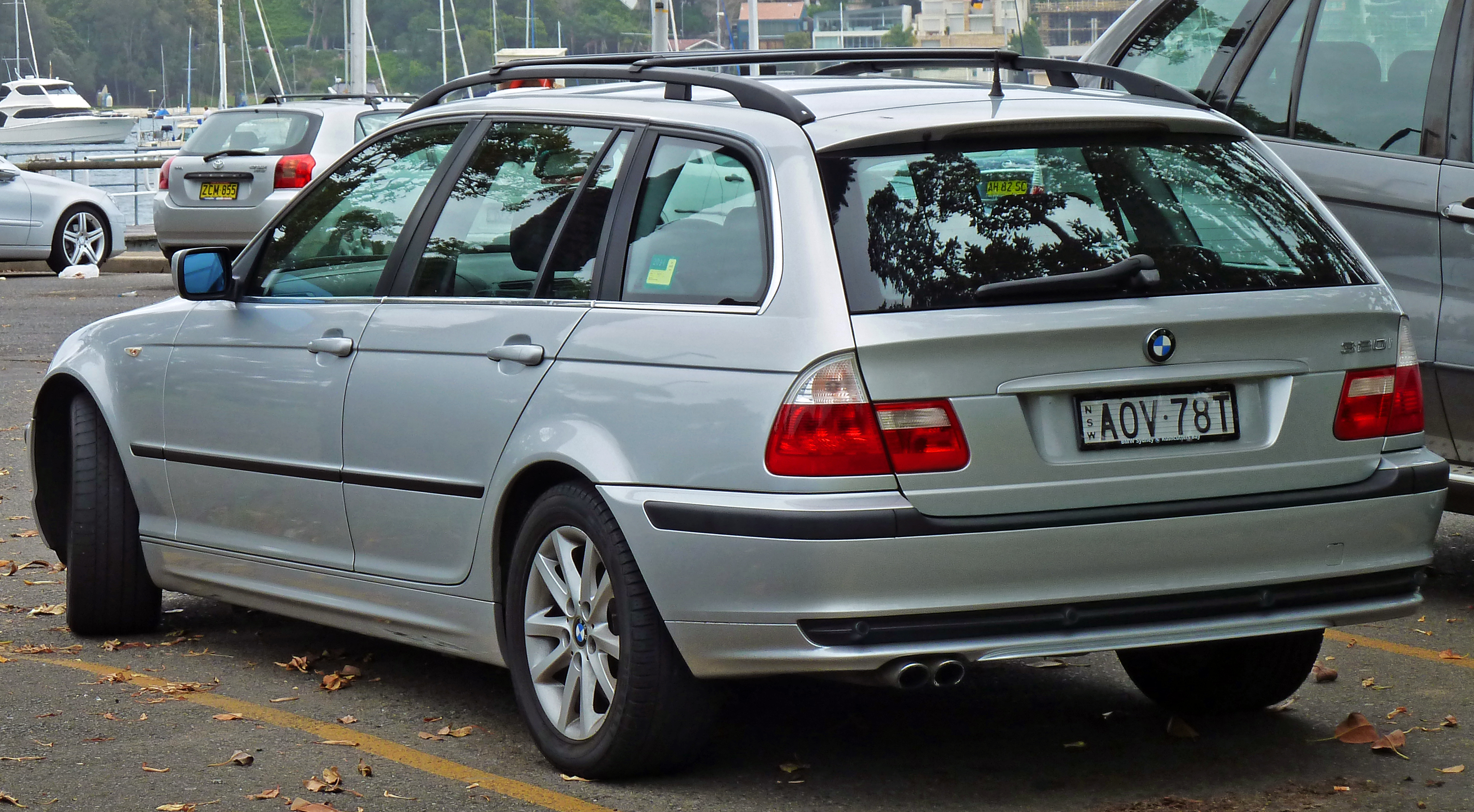 2002–2005 BMW 320i (E46) Touring. Photographed in Rose Bay, New South Wales, Australia.